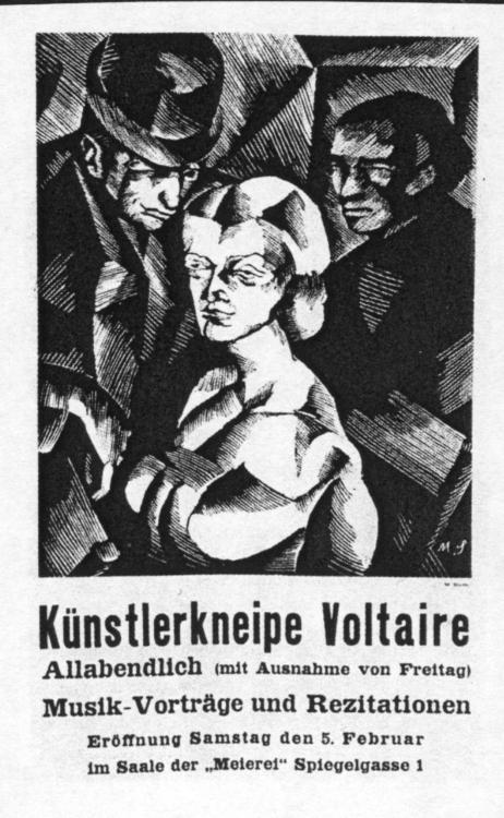 Poster for the opening of the Cabaret Voltaire, 1916, lithograph by Marcel Slodki. Kunsthaus Zurich.